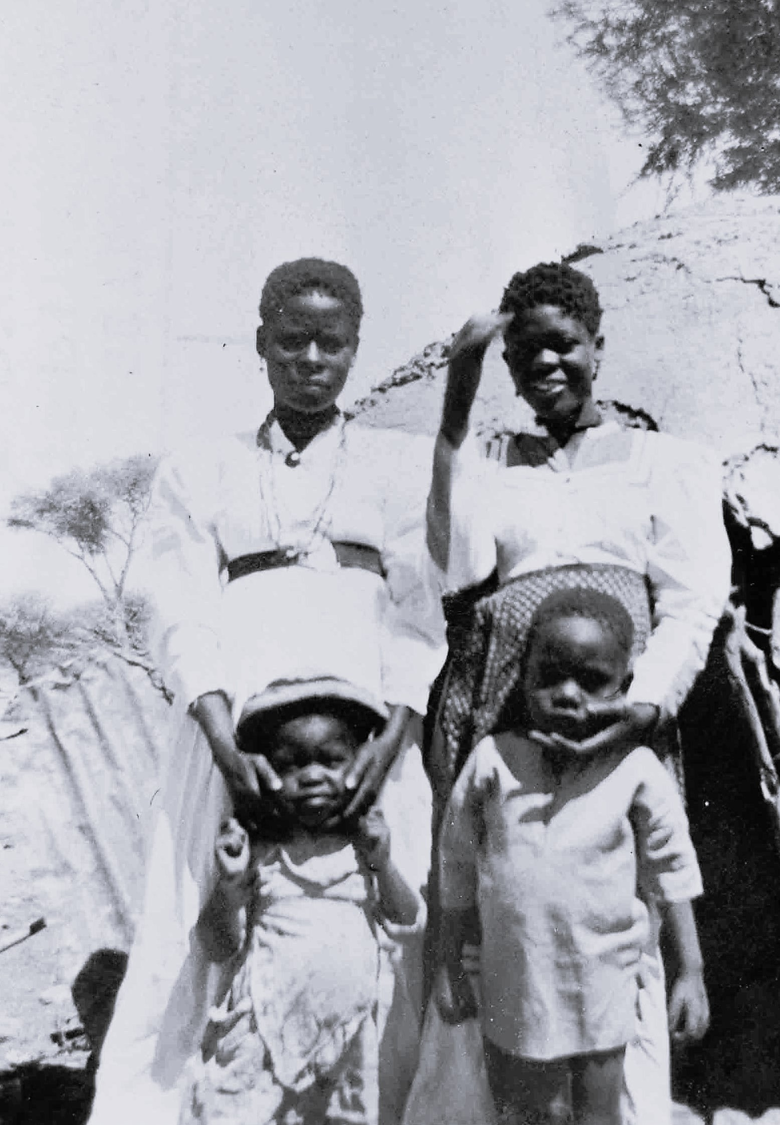 2 young women, Namibia; ca 1908